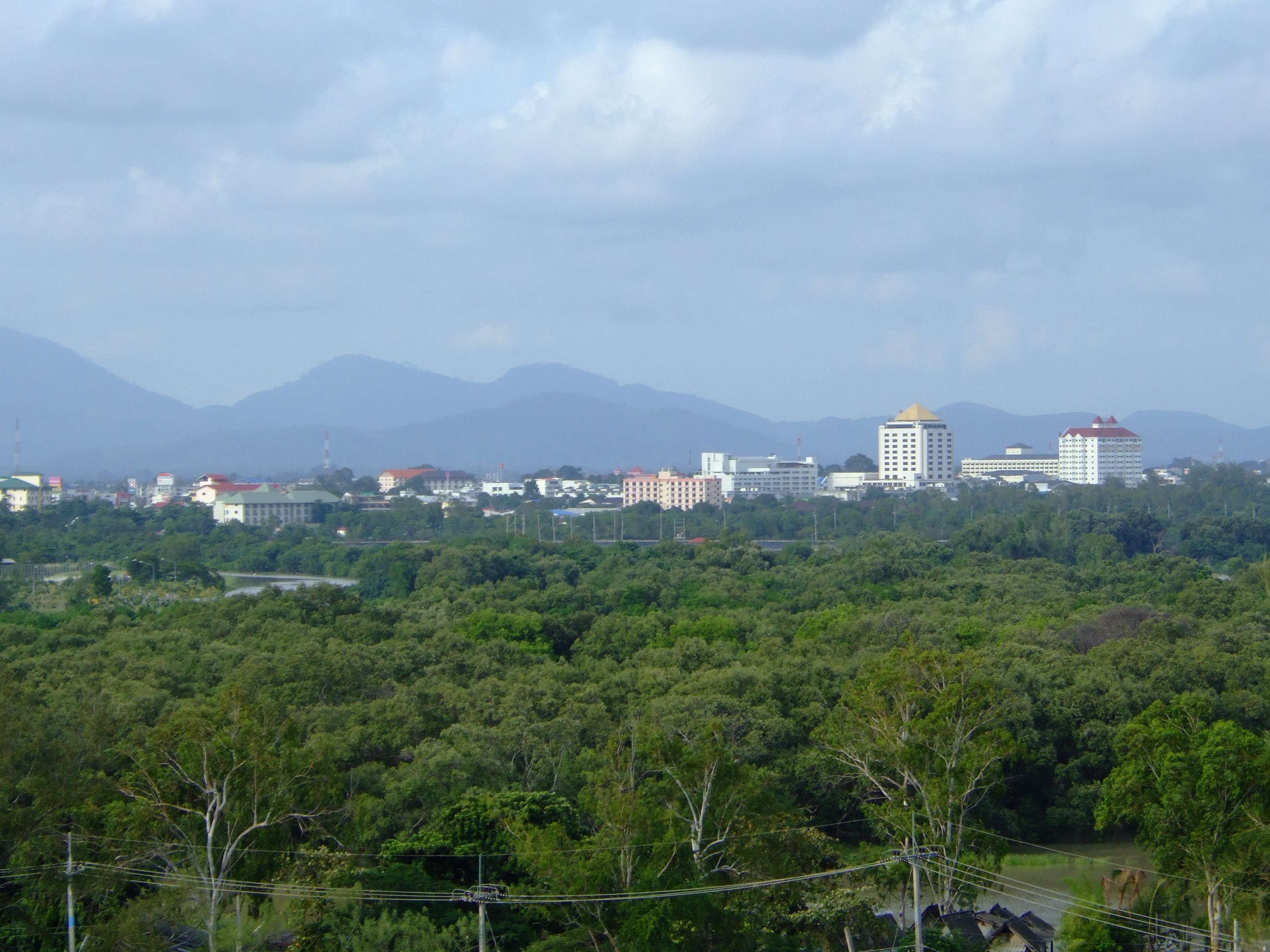 View of Rayong (Thailand) from Kantary Bay hotel